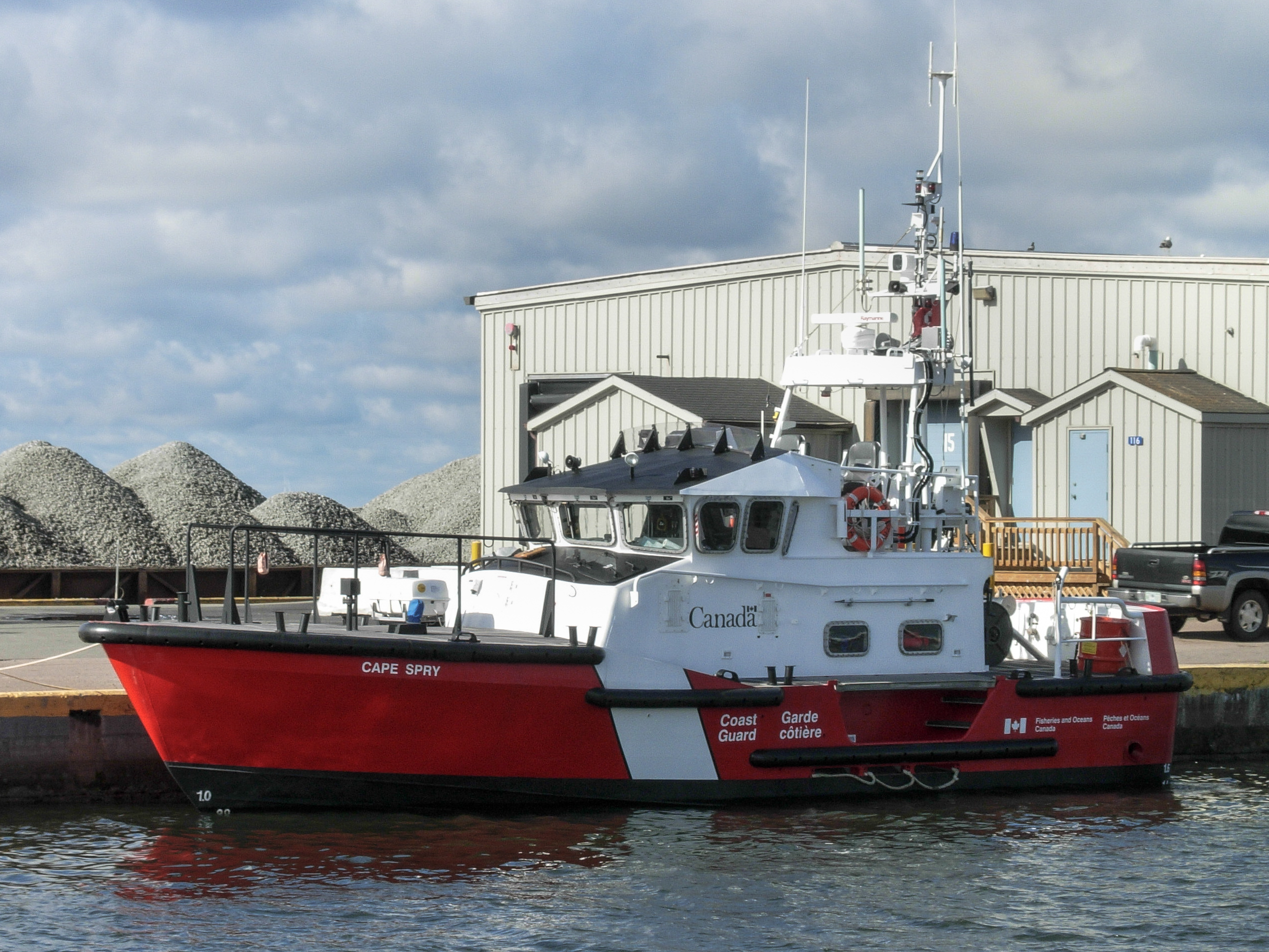 CCGS CAPE SPRY 825552 from the Canadian Coast Guard Service at Souris Harbor, Prince Edward Island, Canada on August 11, 2006.